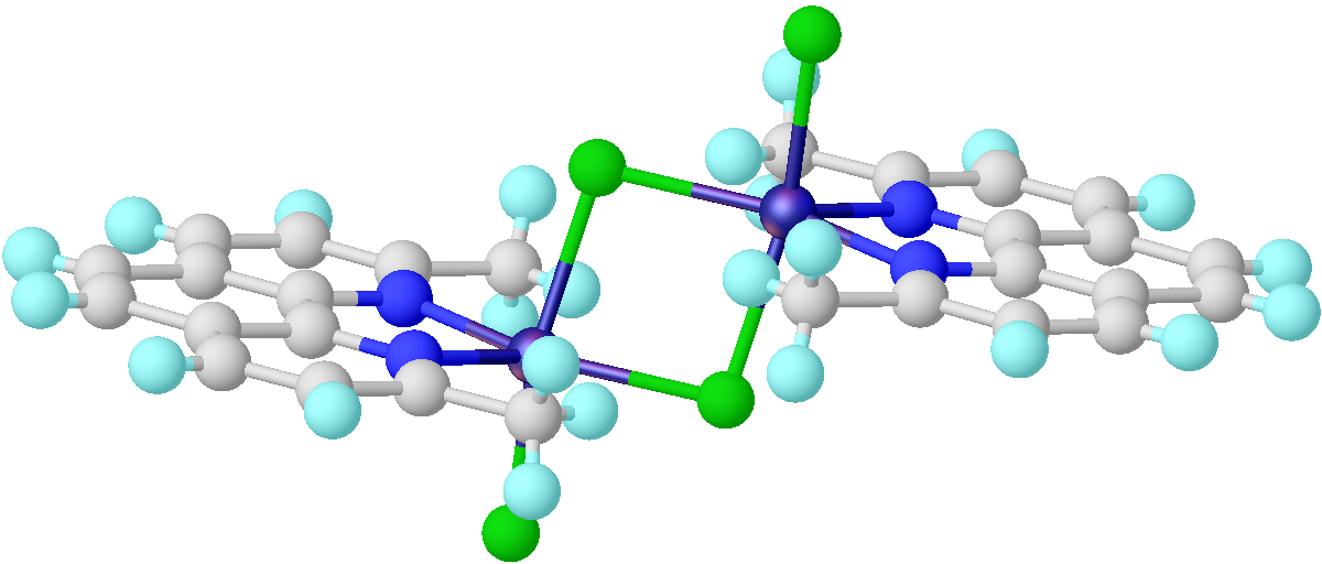 structure of [NiCl2(neocuproine)]2 from doi 10.1039/B603540J